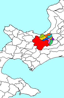 Sapporo city map, made using resources from Koba-chan's resources on the Japanese wikipedia.